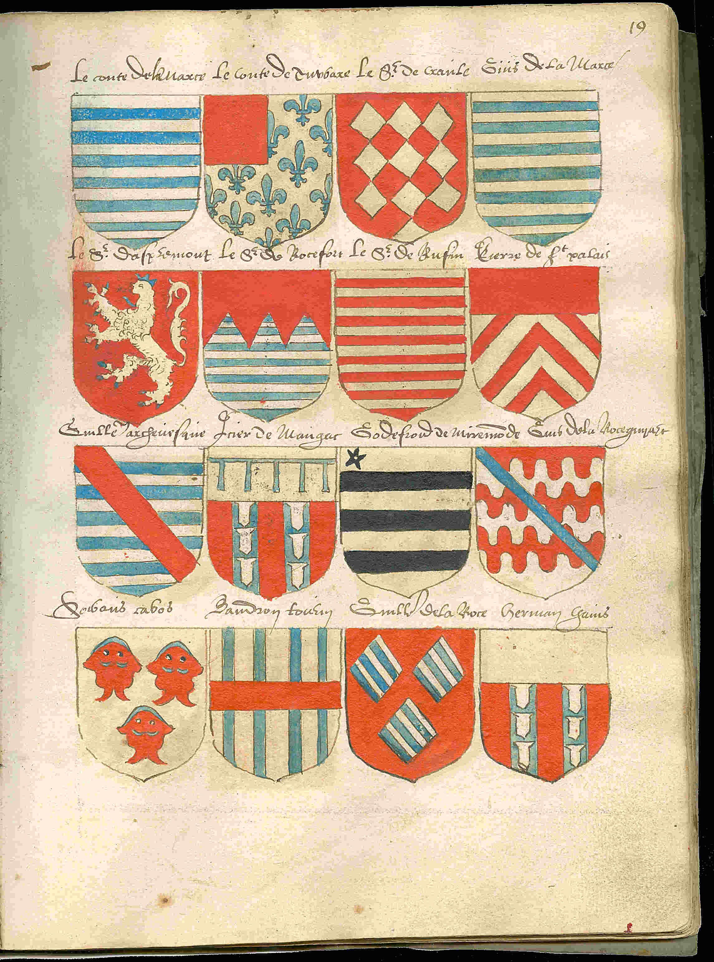 Page 19 from a copy of the Beyeren armorial / Wapenboek Beyeren from ca. 1600. The original Beyeren armorial from 1405 can be viewed at the website of the KB